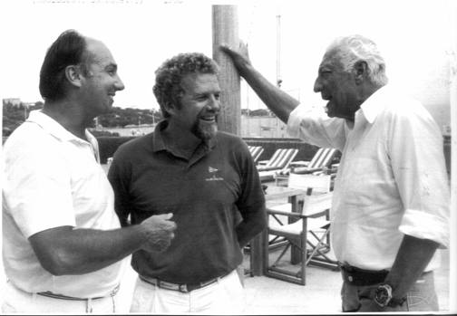 Aga Khan, Cino Ricci and Gianni Agnelli in 1983 in Italy meeting for Azzurra